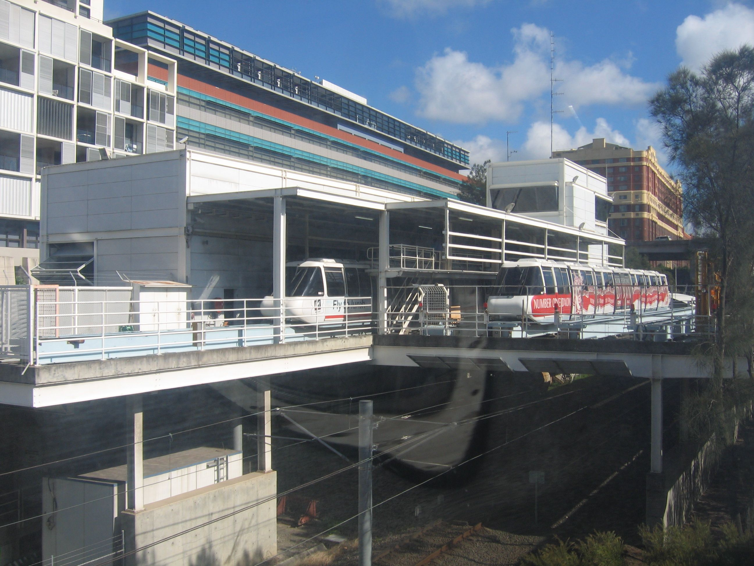 Sydney Monorail, repair shops